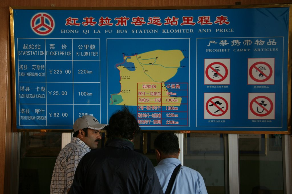 Distances and prices of Chinese bus service at Tashkurgan